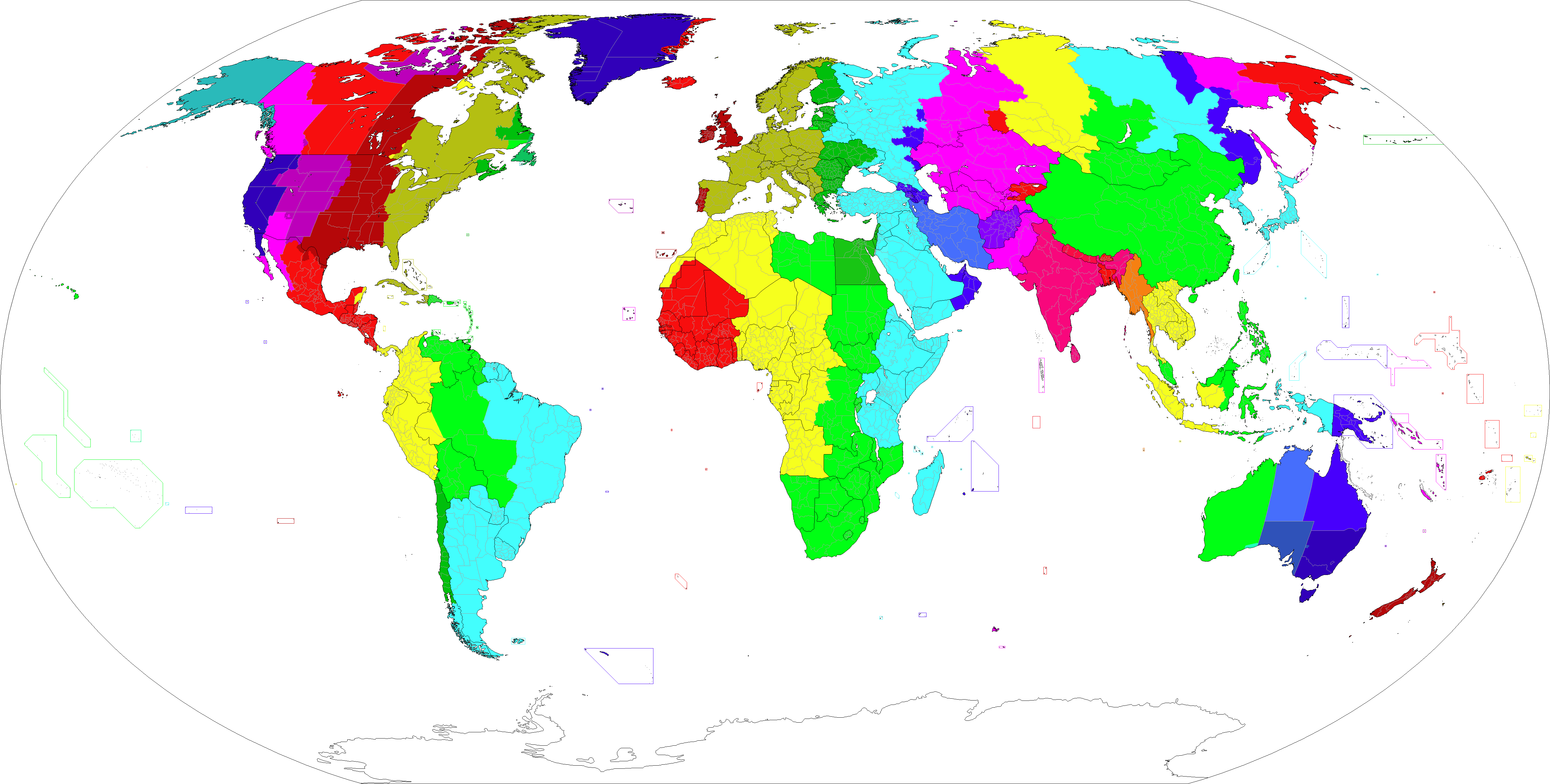 Map of the world's time zones